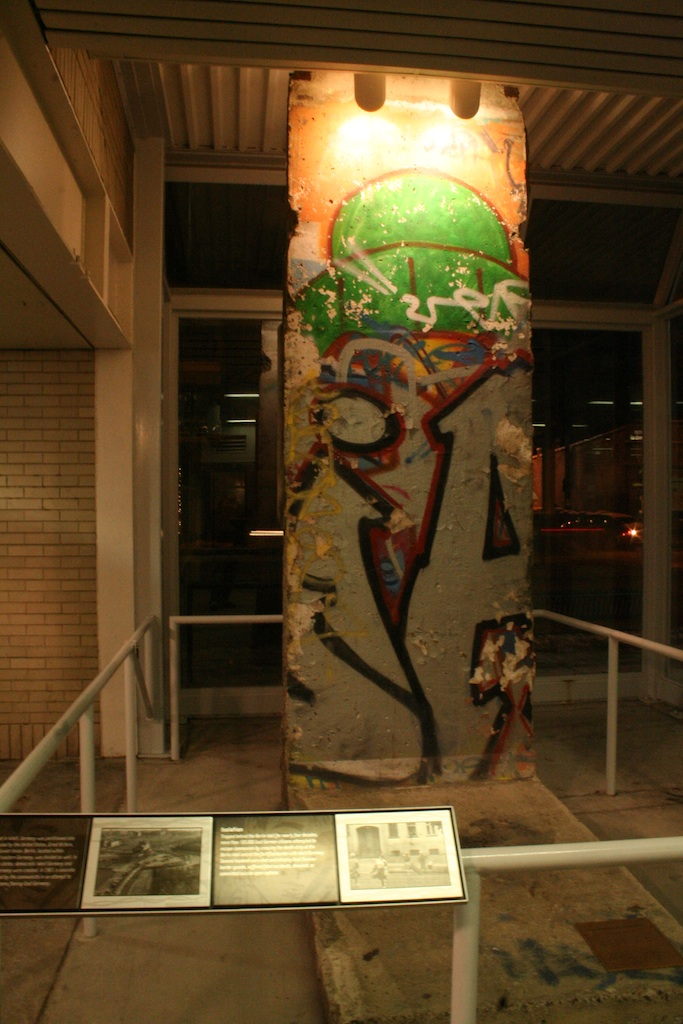 Photograph of a segment of the Berlin Wall, housed in the Western Brown Line station in Chicago, at night.